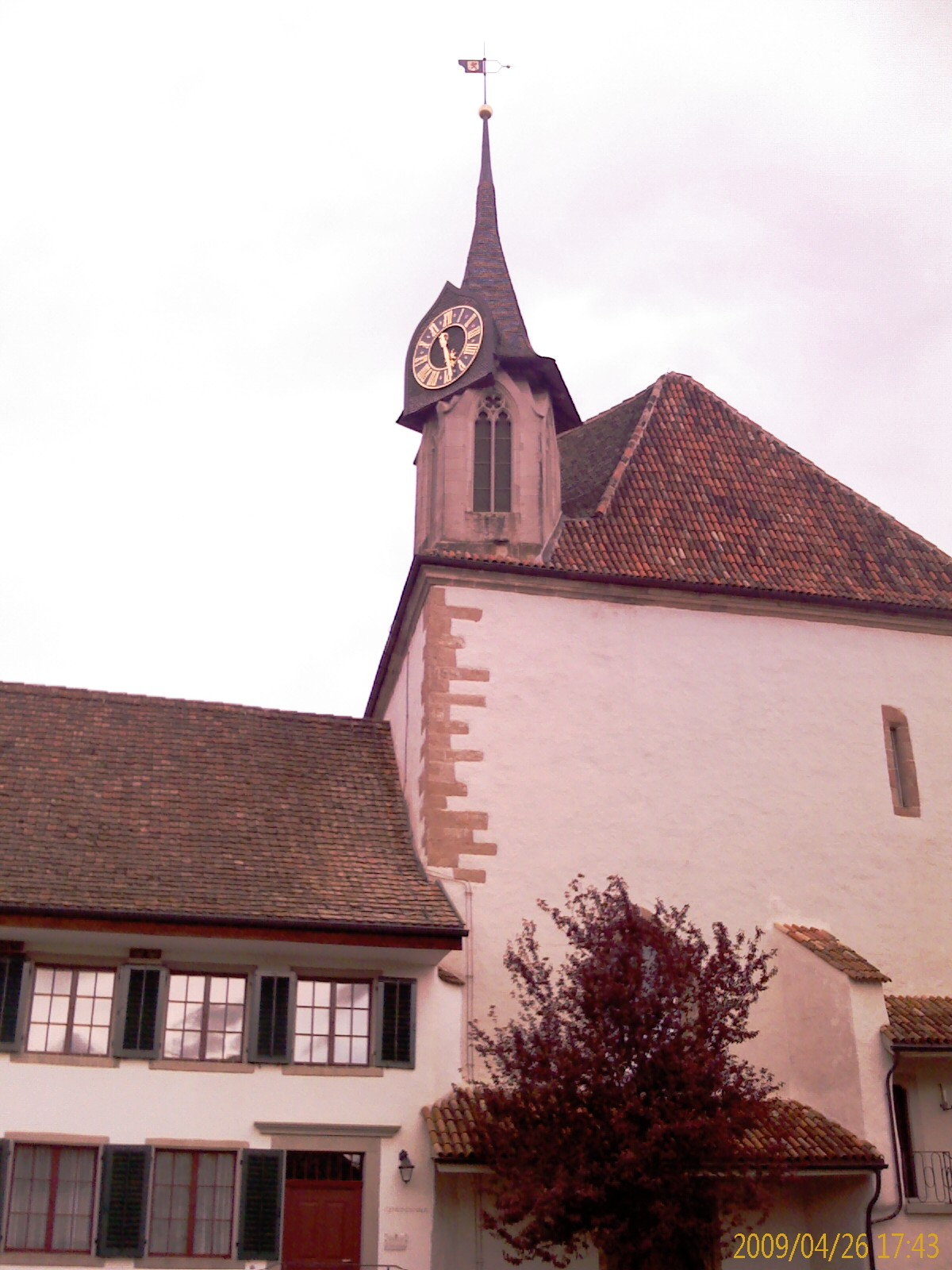 Church and municipal administration of Greifensee, canton of Zürich, Switzerland